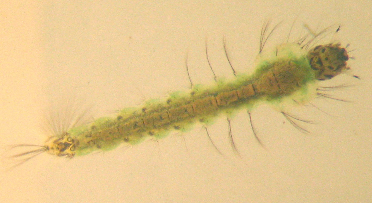 Larvae of an Anopheles sp., about 8 mm long. Found in a pond in Munich, Germany, in June 2007. Typical are the greenish color and a resting position parallel to the water surface.